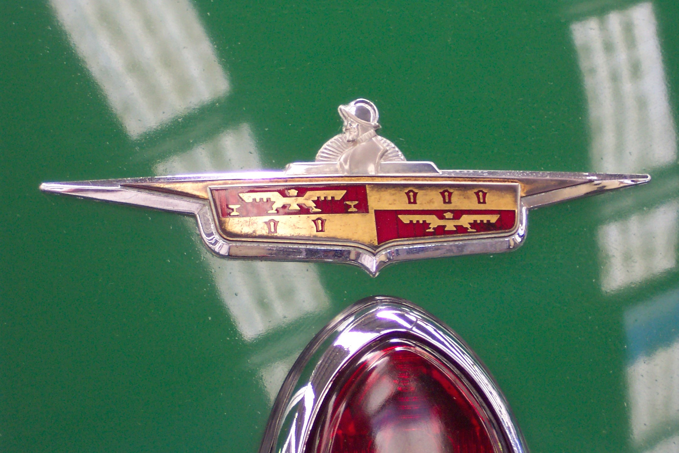 Australian 1946 DeSoto sedan boot lid badge. Taken at the 2003 New South Wales All Chrysler Day, held at Fairfield Showground, Prairiewood, Sydney.